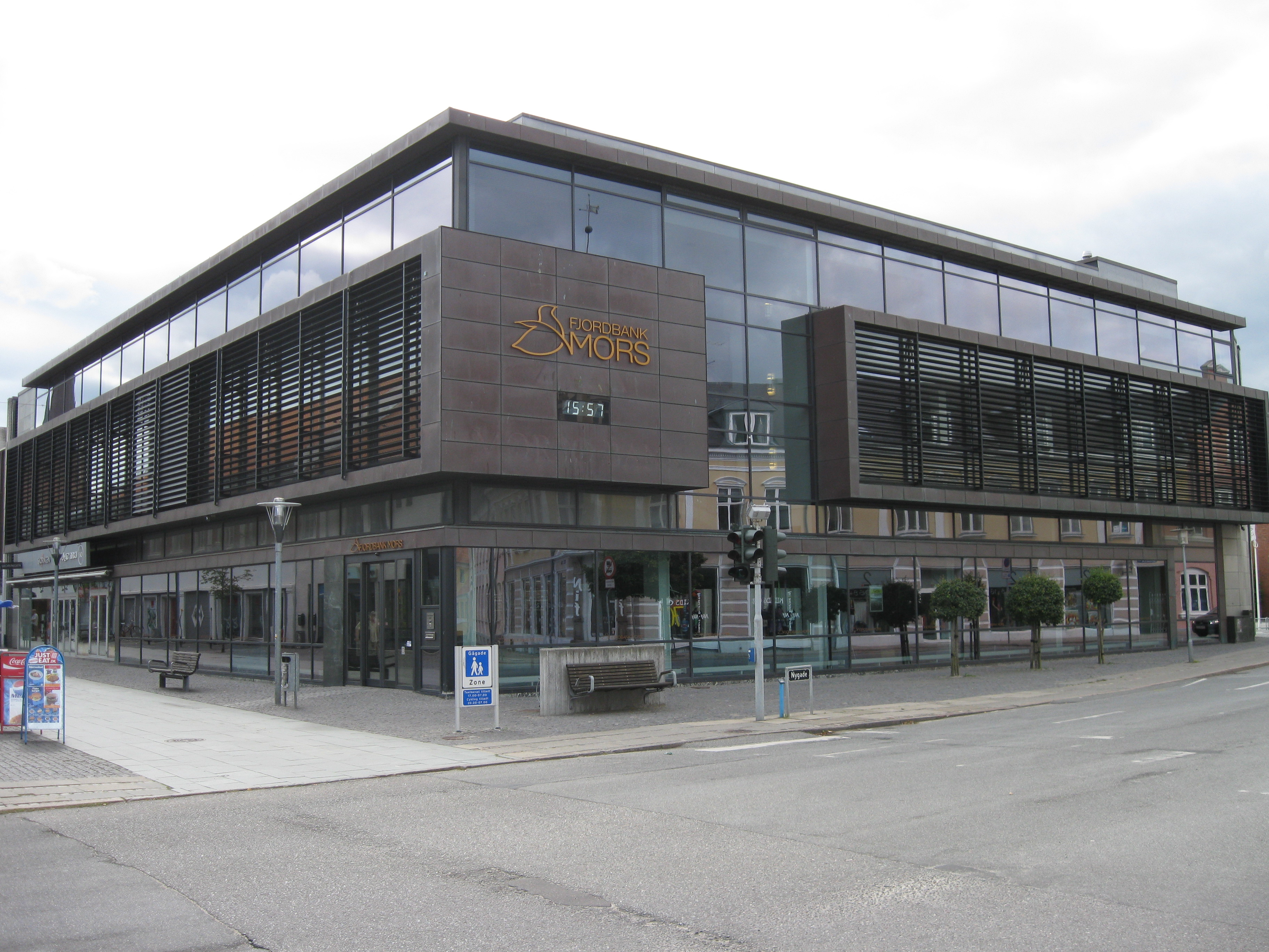 Fjordbank Mors, Nykøbing Mors, Denmark